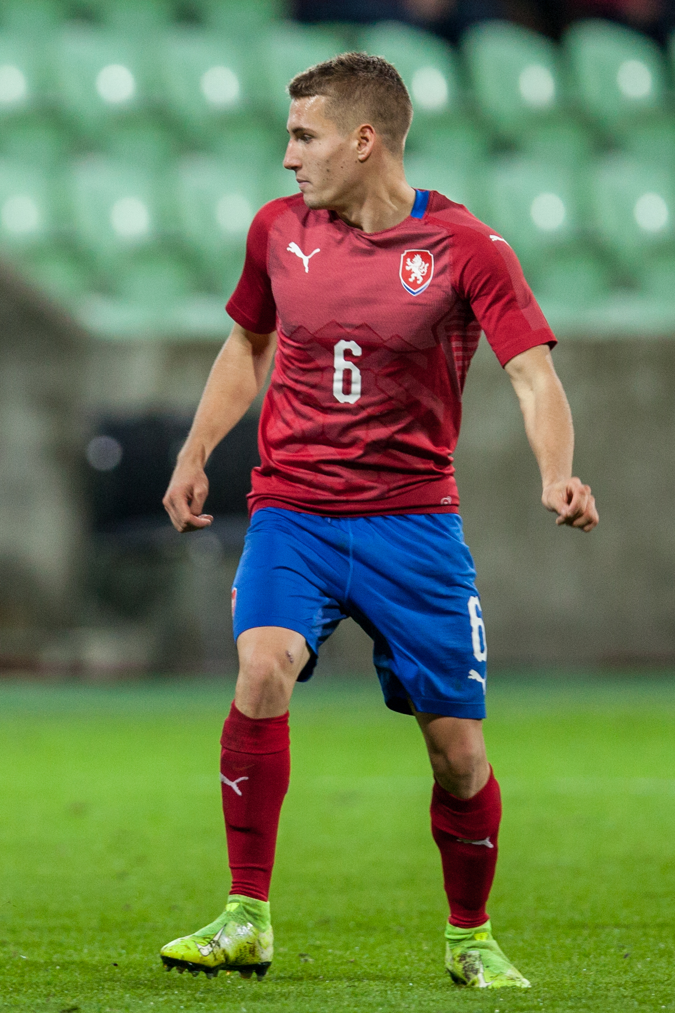 Michal Sadílek in an internatinoal association football match of European Under-21 Championship Qualifying Round between the Czech Republic and Greece, Městský stadion Karviná, Karviná District, Moravian-Silesian Region, Czechia Personality rights warningAlthough this work is freely licensed or in the public domain, the person(s) shown may have rights that legally restrict certain re-uses unless those depicted consent to such uses. In these cases, a model release or other evidence of consent could protect you from infringement claims.